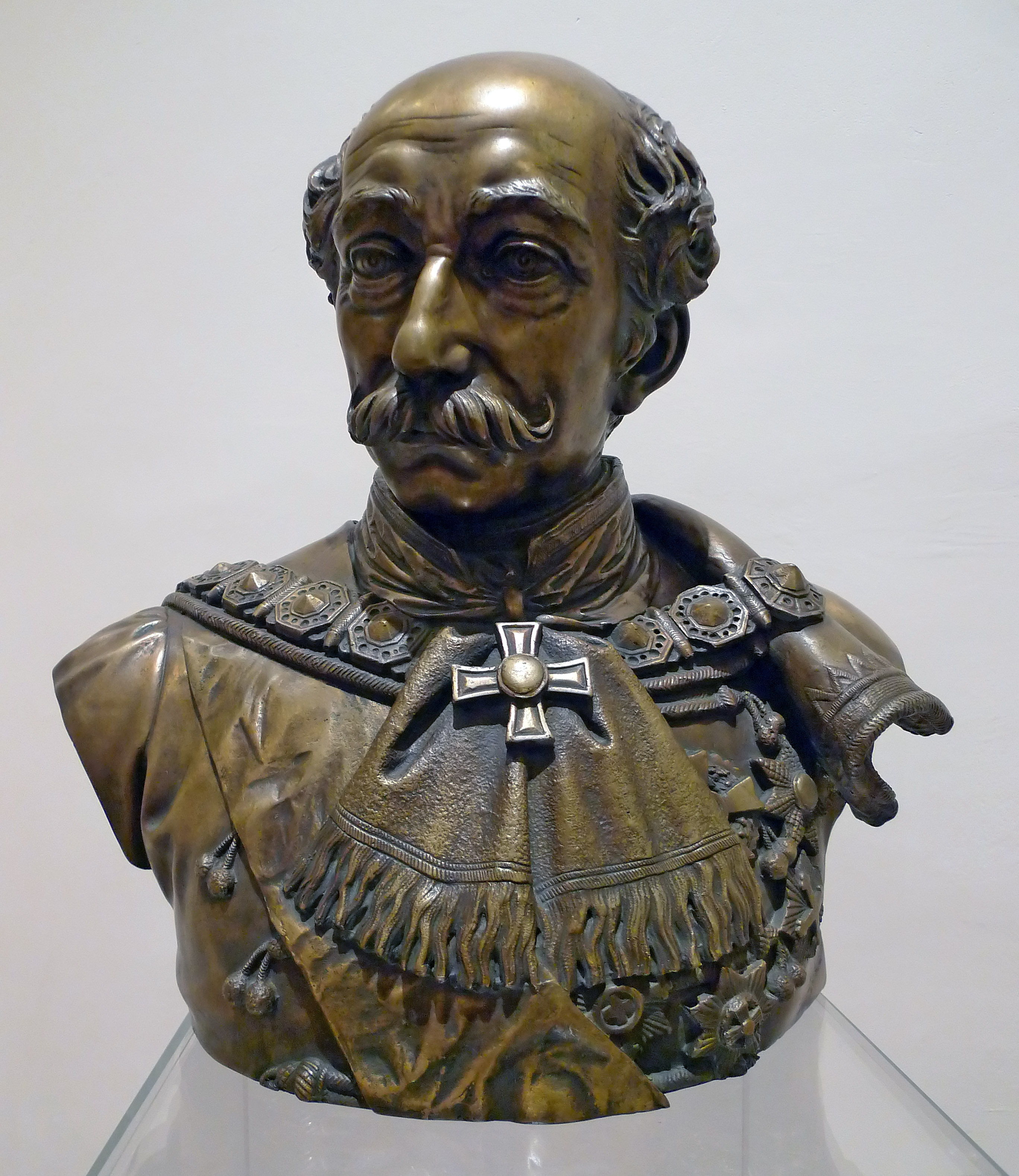 Bust of Josip Jelačić. Bronze cast of the 1869 marble original.